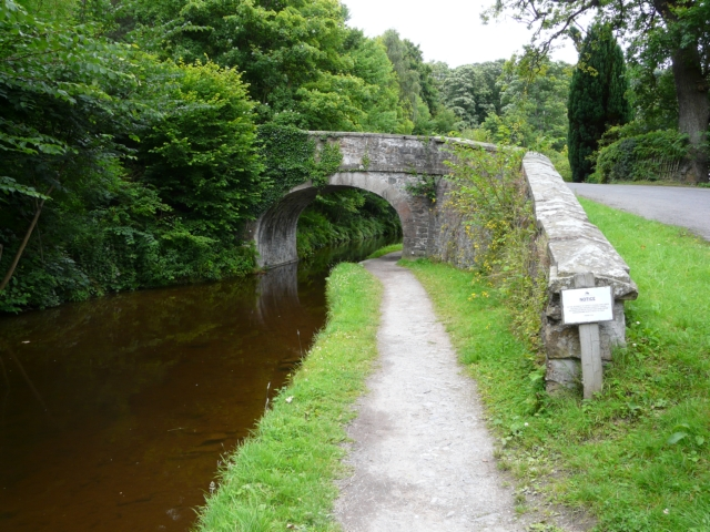 Llangollen Canal Road bridge over canal near Motor Museum.